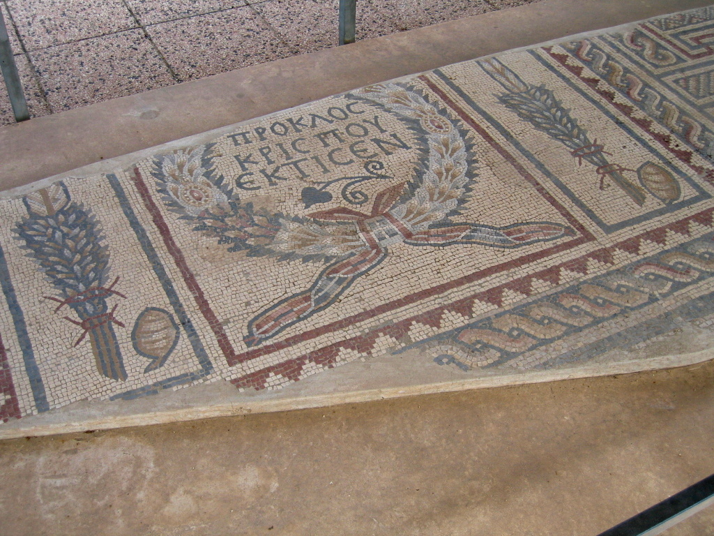 Segment of a synagogue mosaic floor from Tiberias, 7th-8th century ce. with Greek inscription: ΠΡΟΚΛΟC ΚΡΙCΠΟΥ ΕΚΤΙCΕΝ (PROKLOS KRISPOU EKTISEN = "Proklos (son of) Krispos (= lat. Crispus) made (it)"). Eretz Israel Museum, Tel Aviv, Israel.